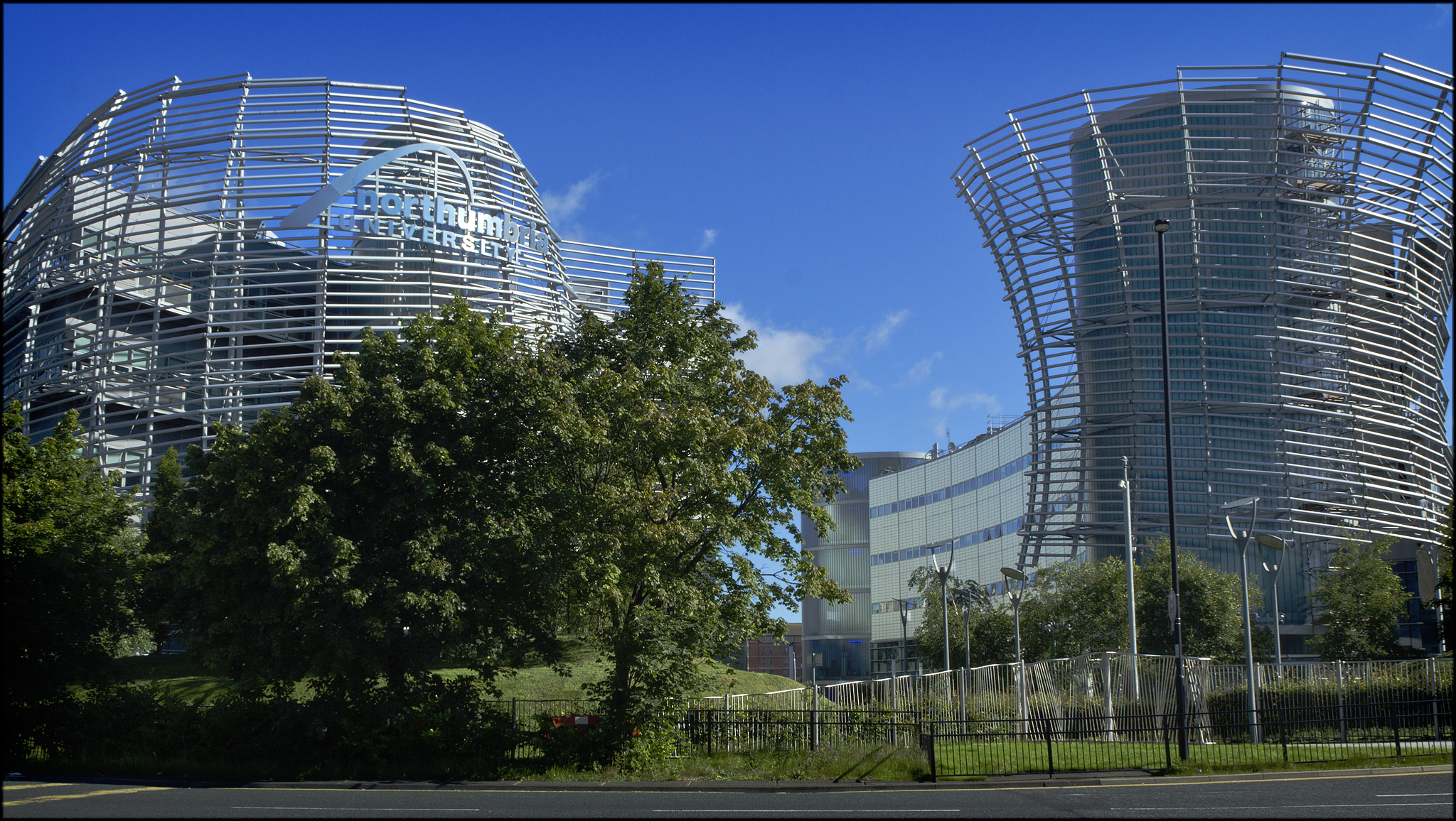 Tyne & Wear